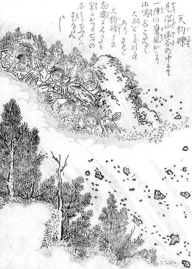 Tengutsubute (天狗礫, a phenomenon in which stones are suddenly thrown through the air somewhere deep in the mountains) from the Konjaku Hyakki Shūi (今昔百鬼拾遺)